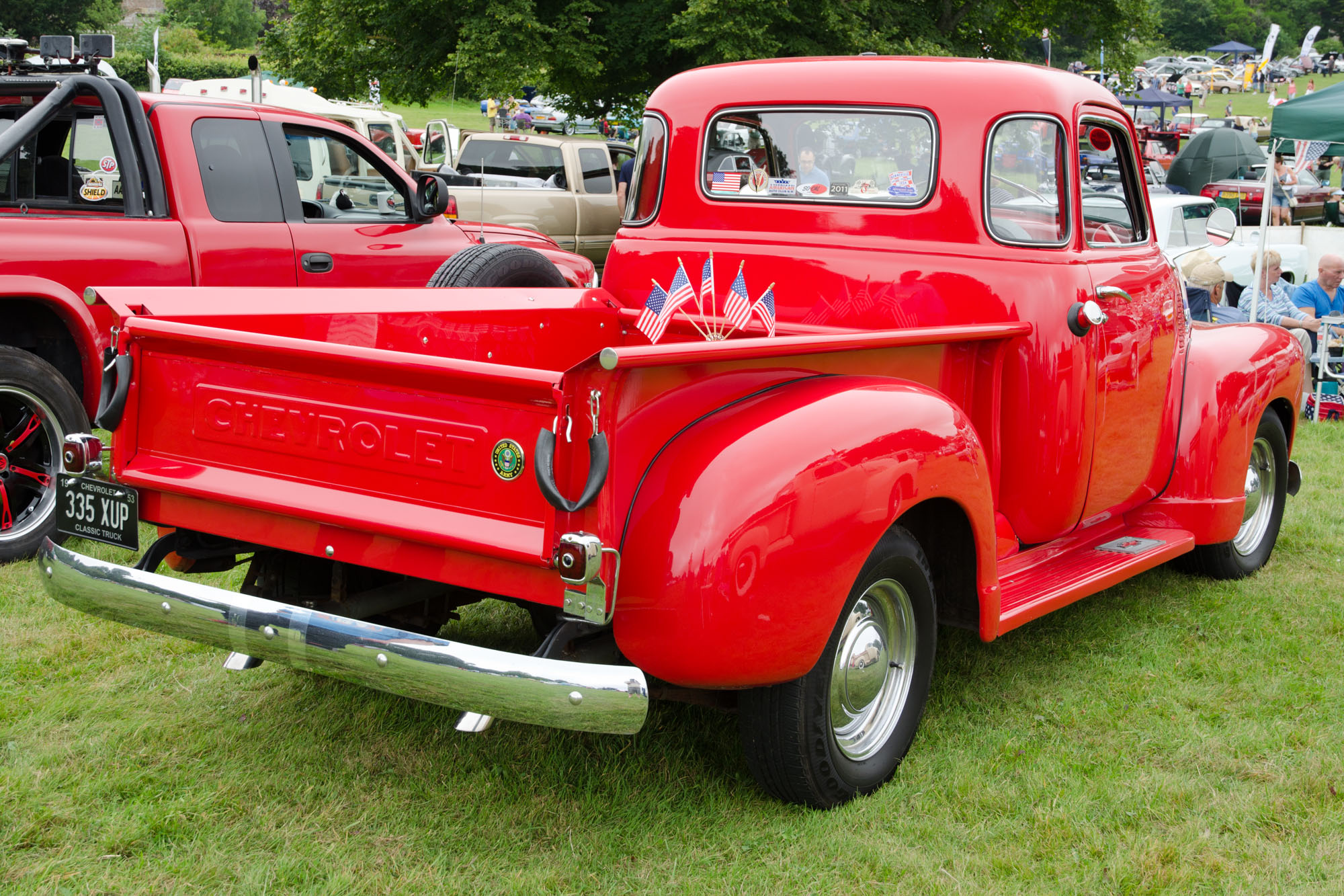 Bodelwyddan Classic Car Show 20/07/2014